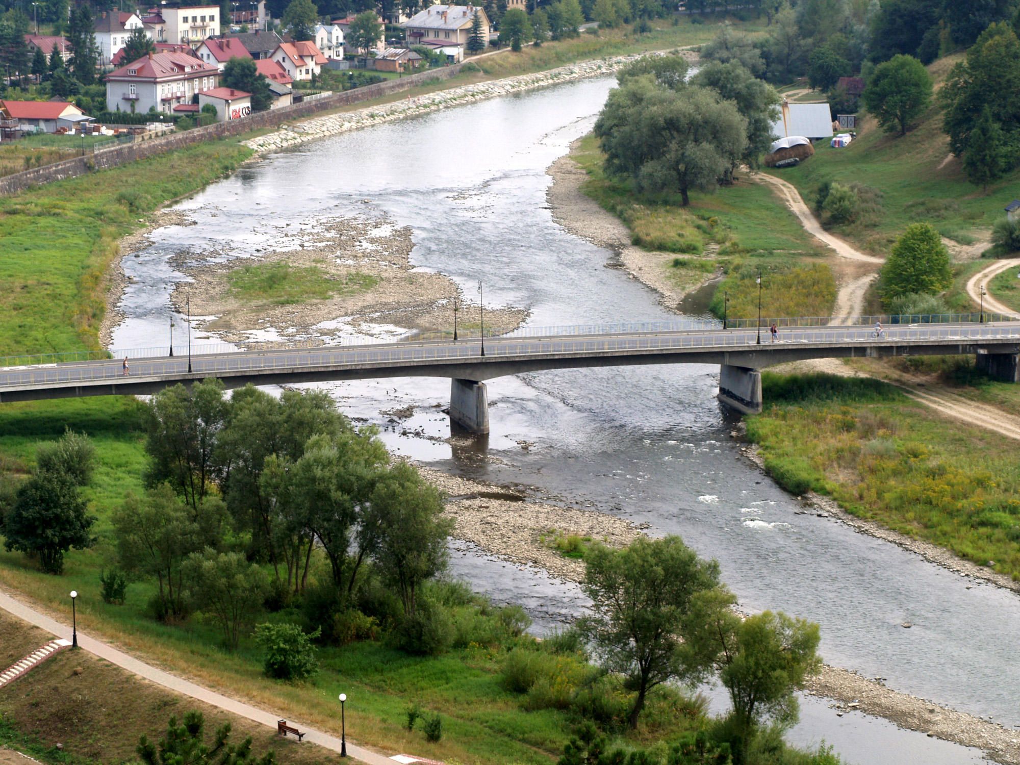 Rzeka Poprad river, seen from castle ruins in Muszyna.